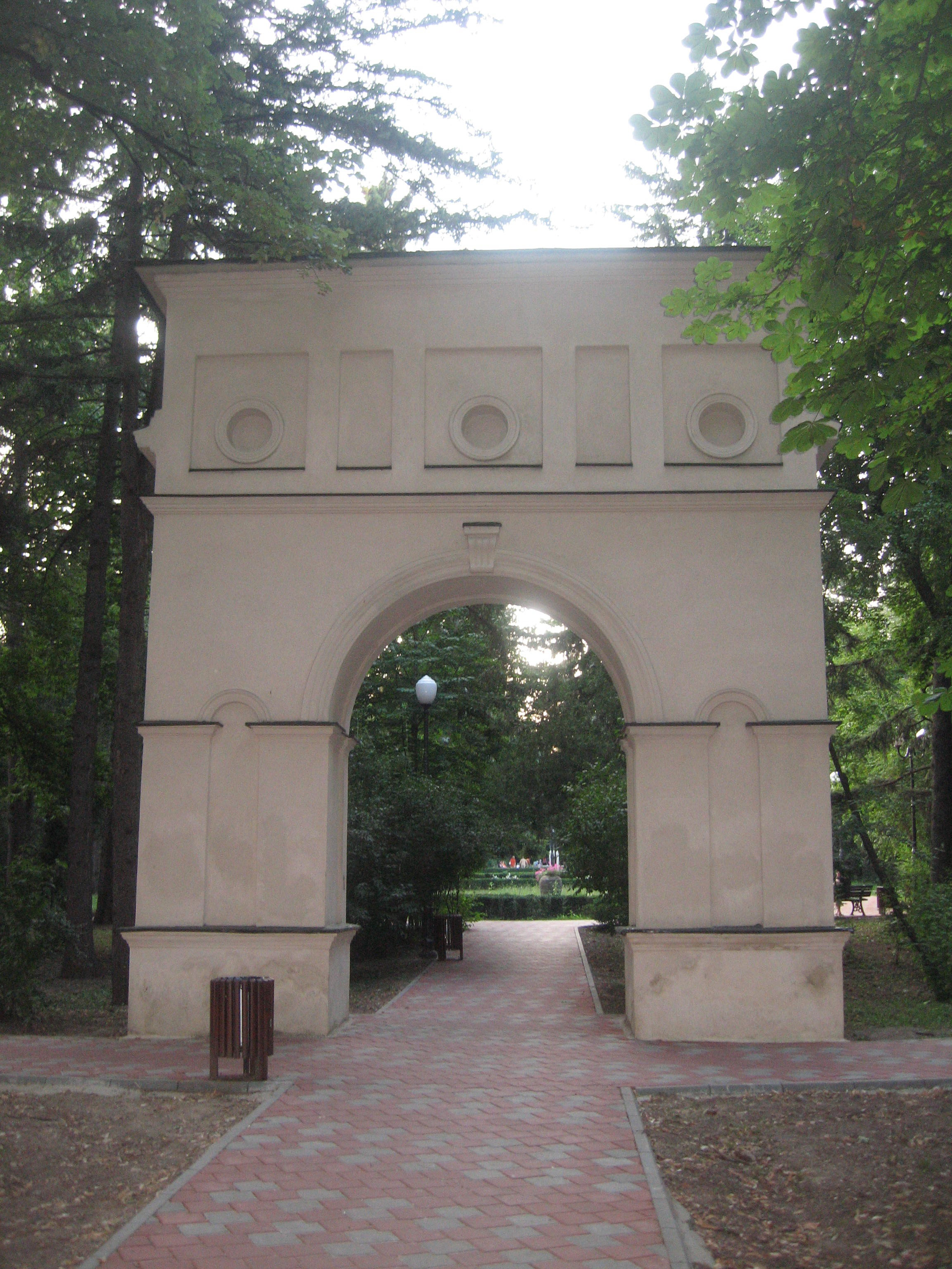 Parcul Expoziţiei din Iaşi